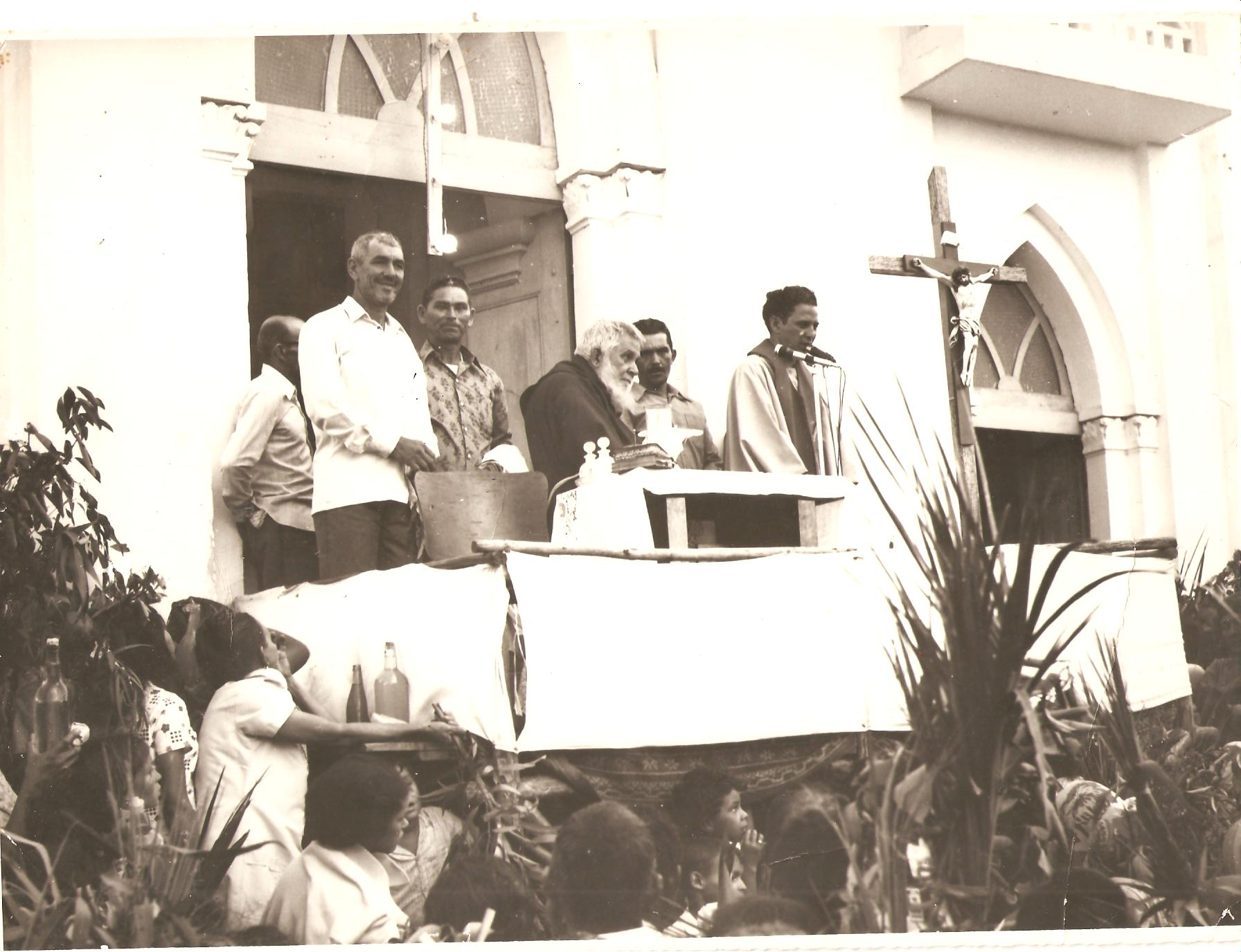 Frei Damião celebrando as santas missões em frente a matriz do Rosário